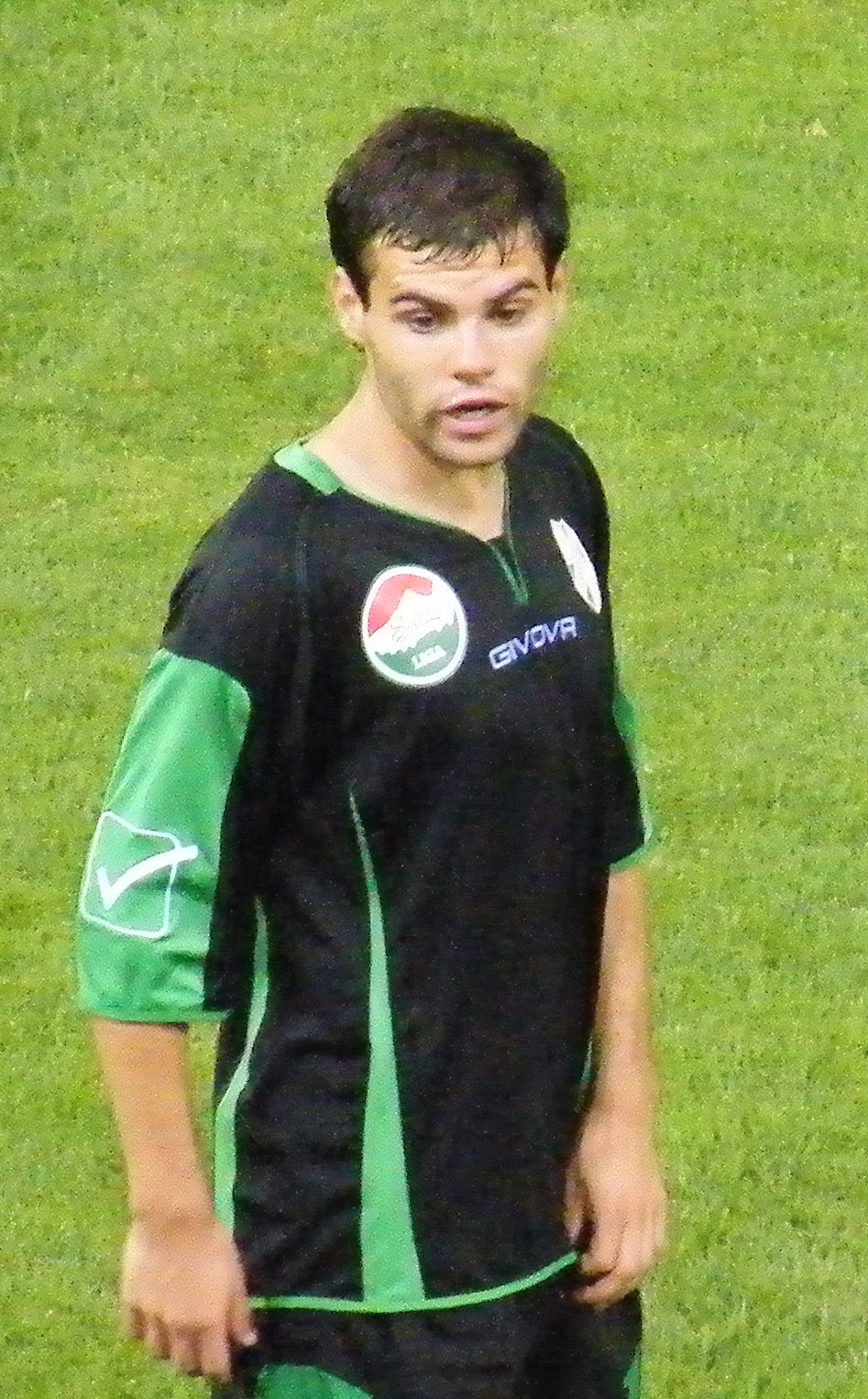 Nemanja Nikolić Serbian football player